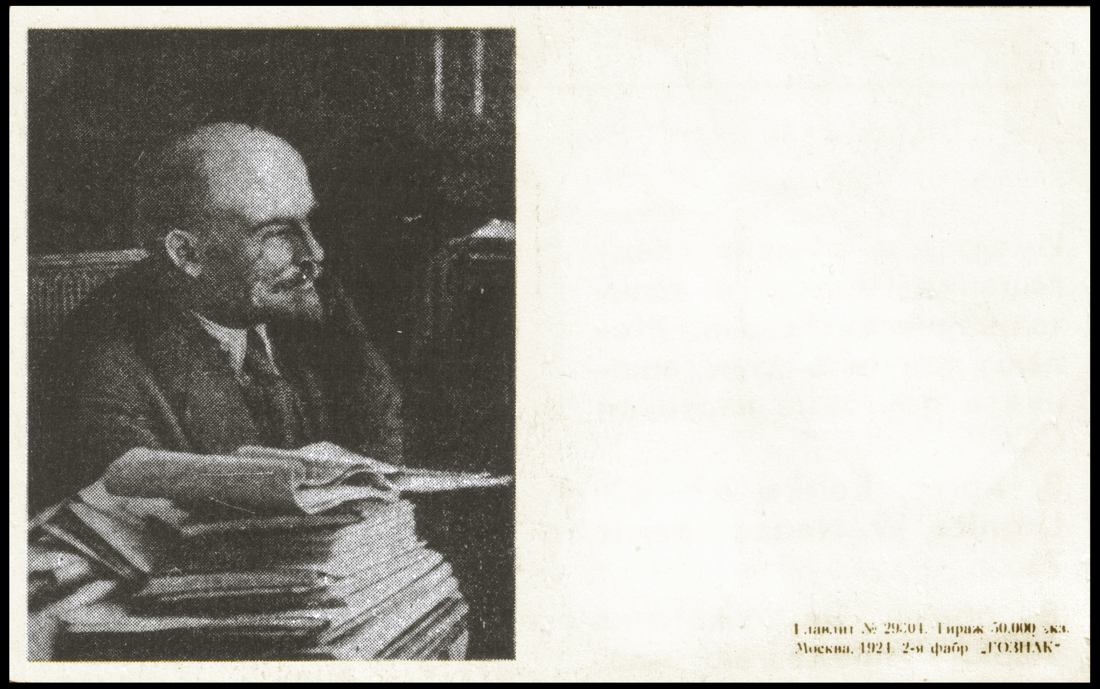 USSR stamped postal card, the very first Soviet illustrated postal stationery, 1924